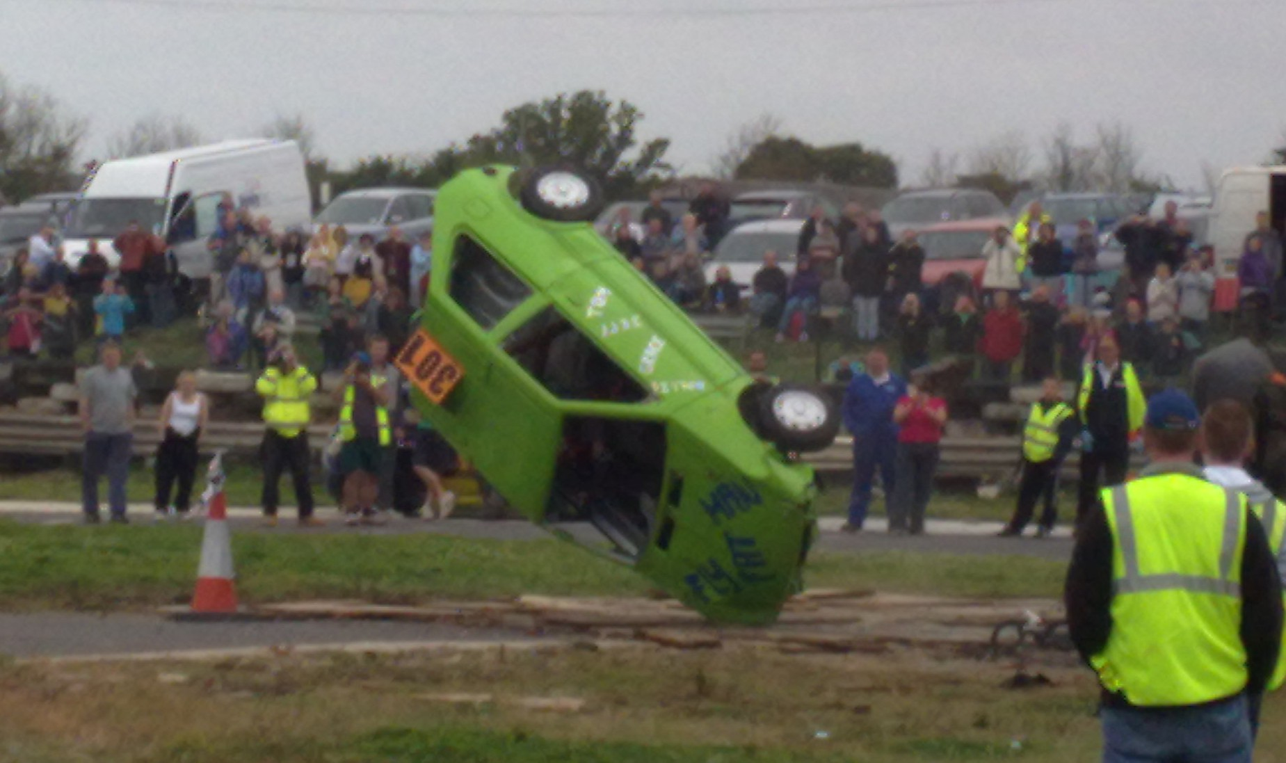 Car rolling over after car jump at Oval Raceway